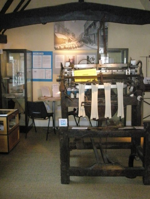 Display within Godalming Museum (3)